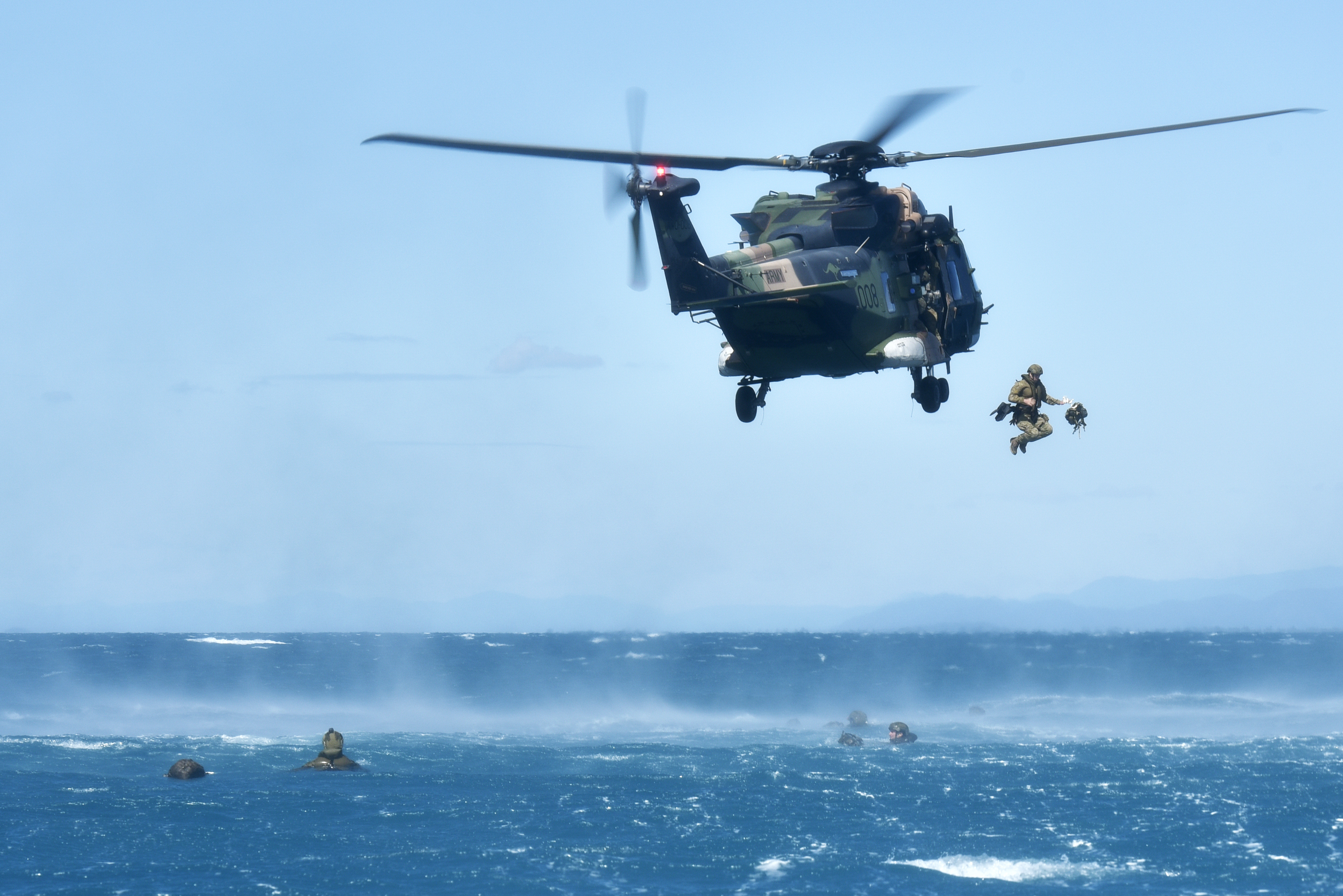 Australian soldiers from 2nd Battalion, Royal Australian Regiment (2 RAR) participate in helocasting by jumping out of an MRH-90 off the eastern coast of Australia June 7. The service members are currently embarked on the HMAS Canberra in support of Exercise Sea Series 18. U.S. Marines and Navy corpsmen with Marine Rotational Force – Darwin are also participating in Sea Series operations. (U.S. Marine Corps photo by Staff Sgt Daniel Wetzel)